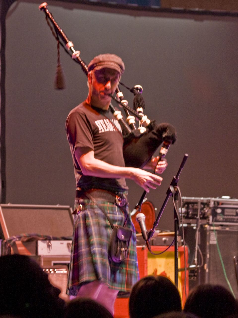 Flatfoot 56 "tartan-toting" Josh Robeieson on the pipes